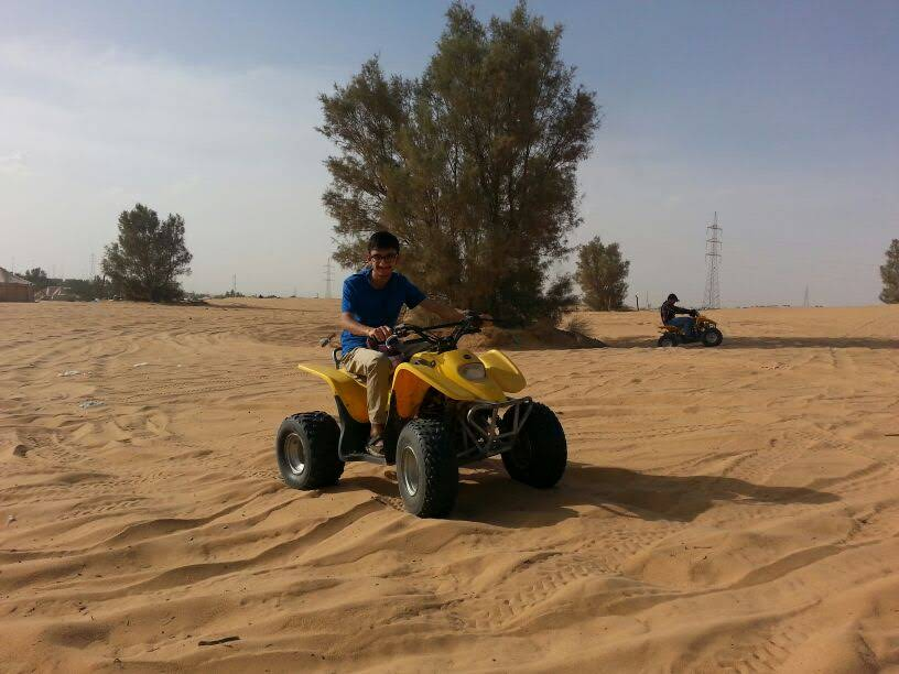 ATV riding is popular in Dunes of Saudi Arabia